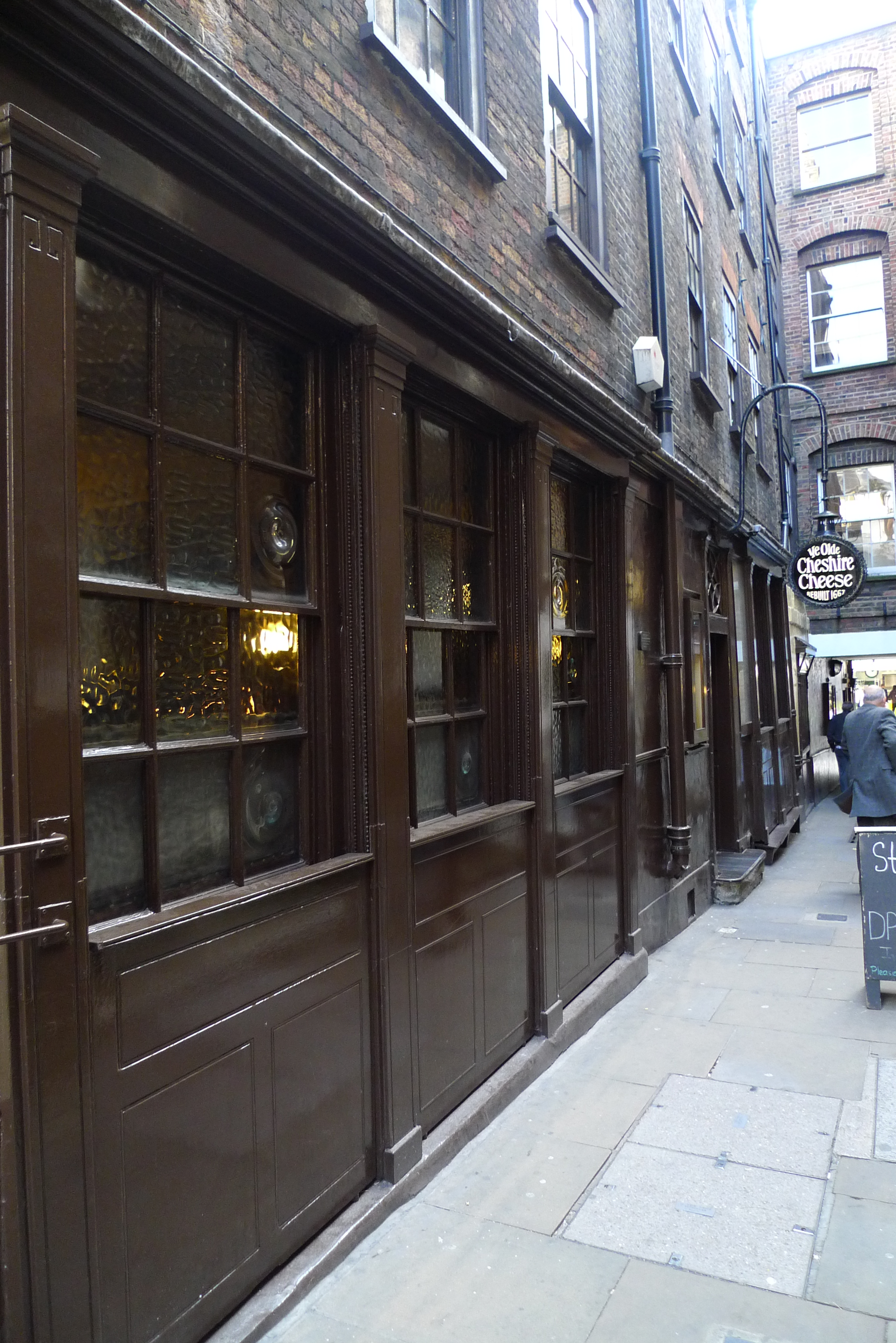 Historic pub just off Fleet St, now owned by Sam Smith's. The entrance is down the side alleyway off Fleet Street. (Another angle of the same entrance.) Address: 16 Wine Office Court, 145 Fleet Street. Former Name(s): Johnson's Chop House. Owner: Samuel Smith's. Links: Randomness Guide to London Fancyapint Beer in the Evening Wikipedia Pubs History (history)